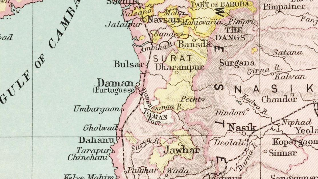 1909 Imperial Gazetteer of India Bombay Presidency II map section